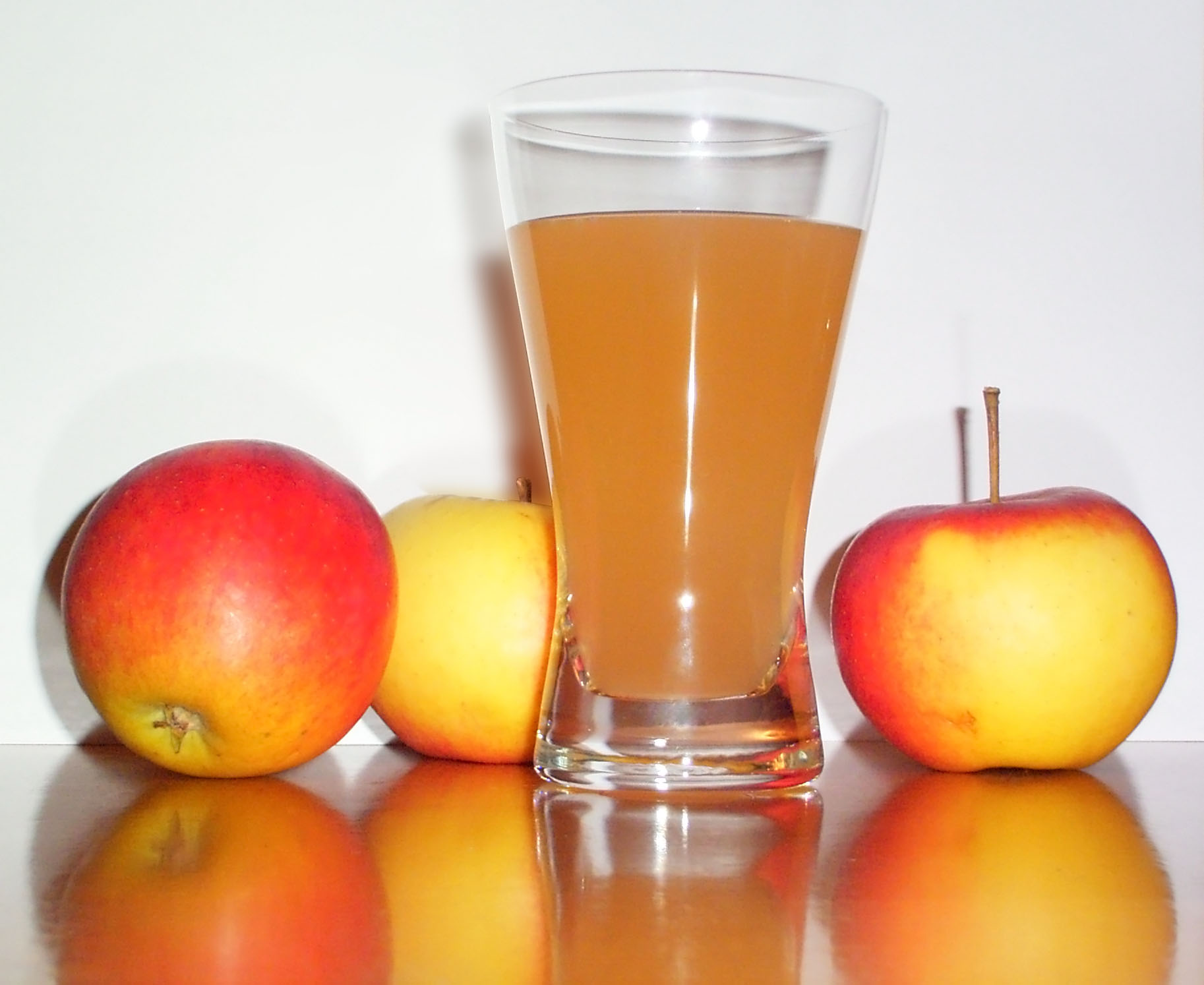 Apple juice in front of three apples